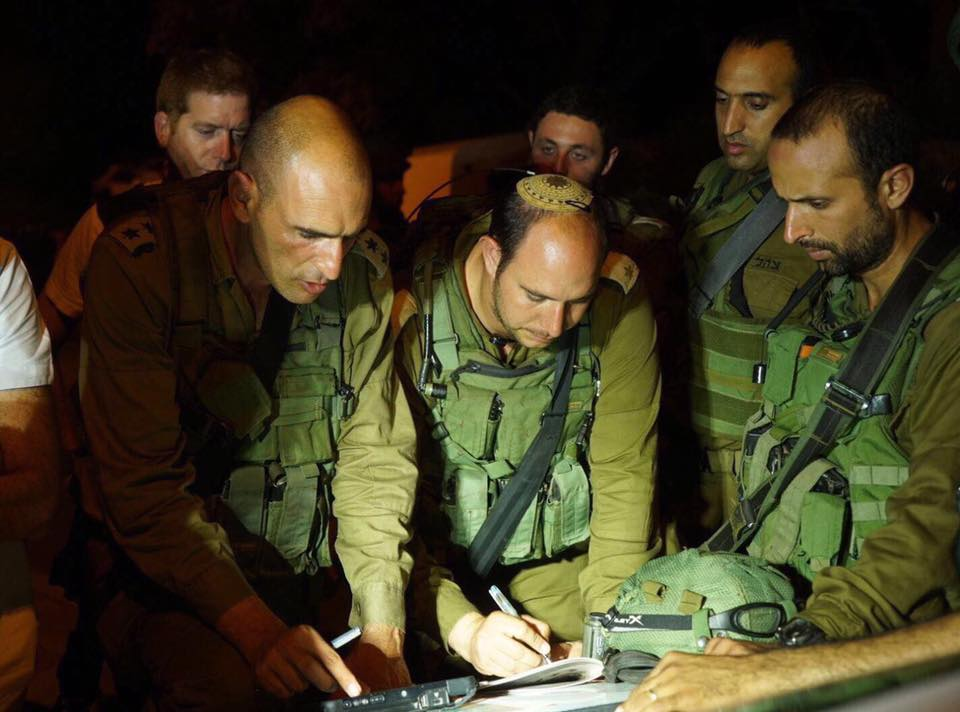 IDF Generals consulting after 2017 Halamish terror attack